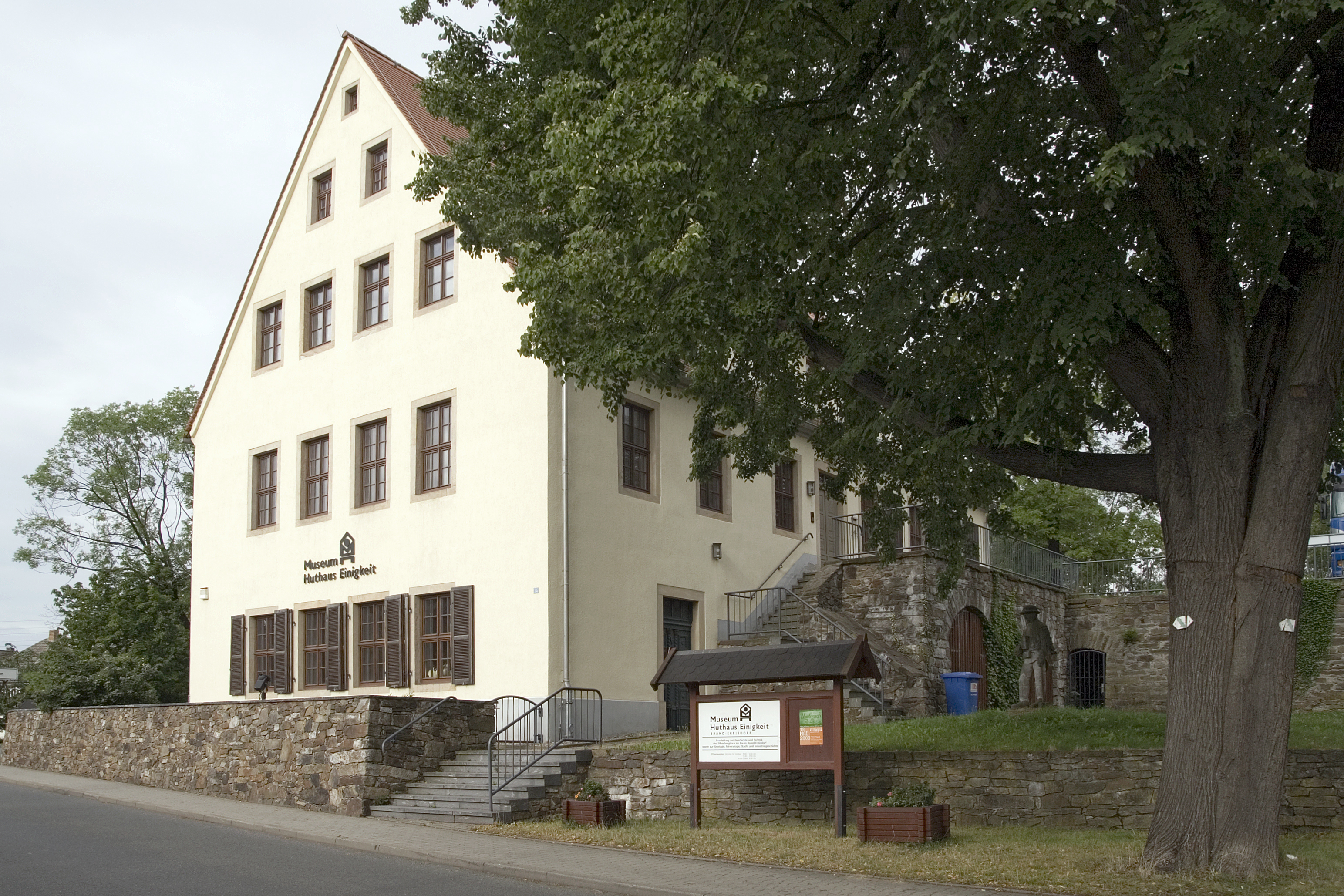 Brand-Erbisdorf, Saxony, Museum "Huthaus Einigkeit"